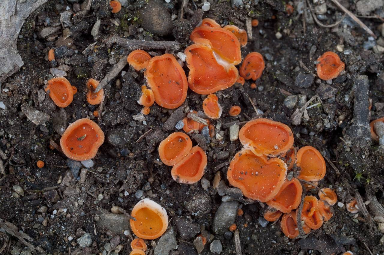 Fruit bodies of the ascomycete fungus Pulvinula convexella. Photographed in Pend Oreille Co., Washington, USA.